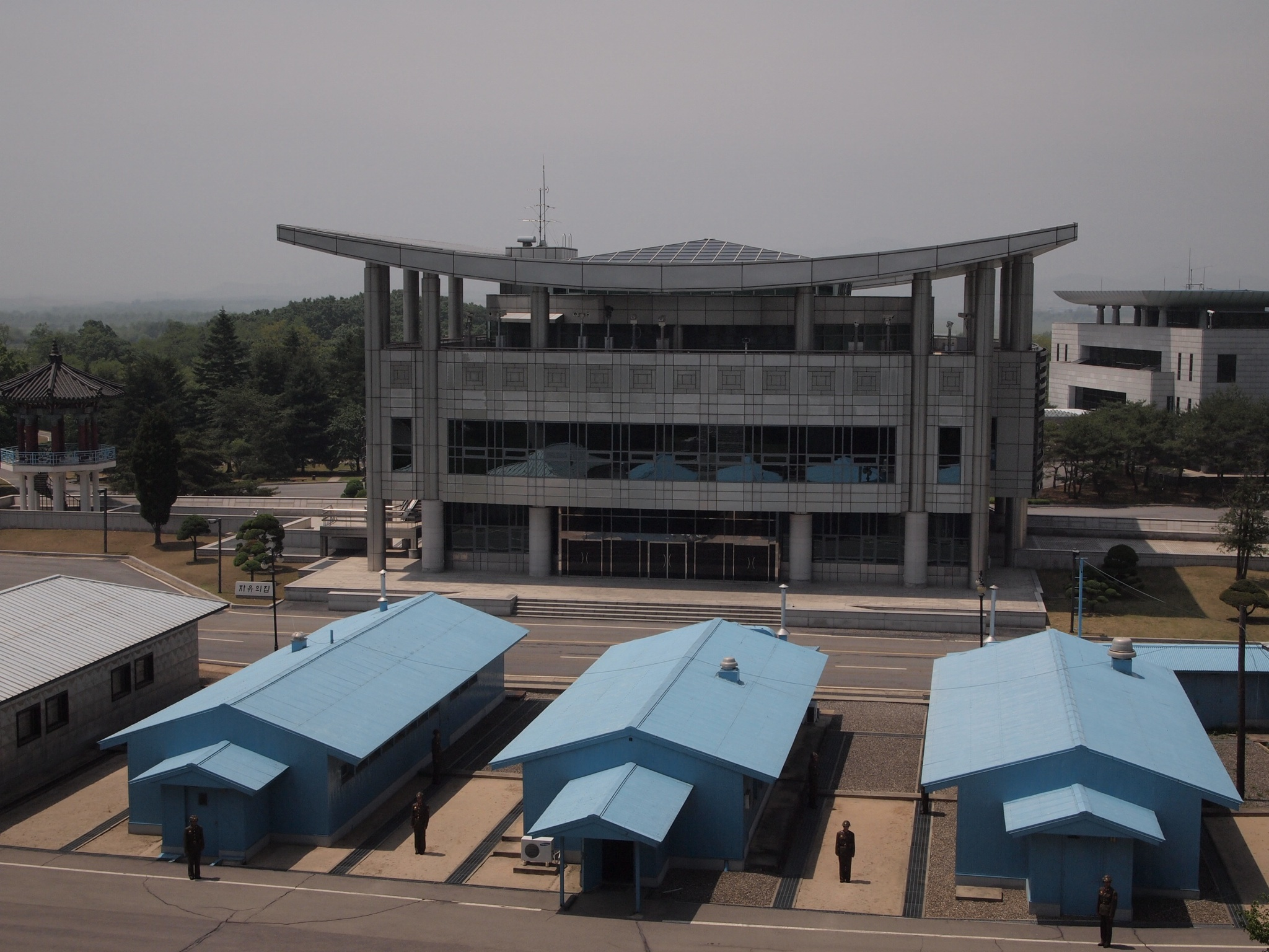 Inside the DPRK looking across Panmunjom to the South Korean side, which was closed on this day so no visitors were present.